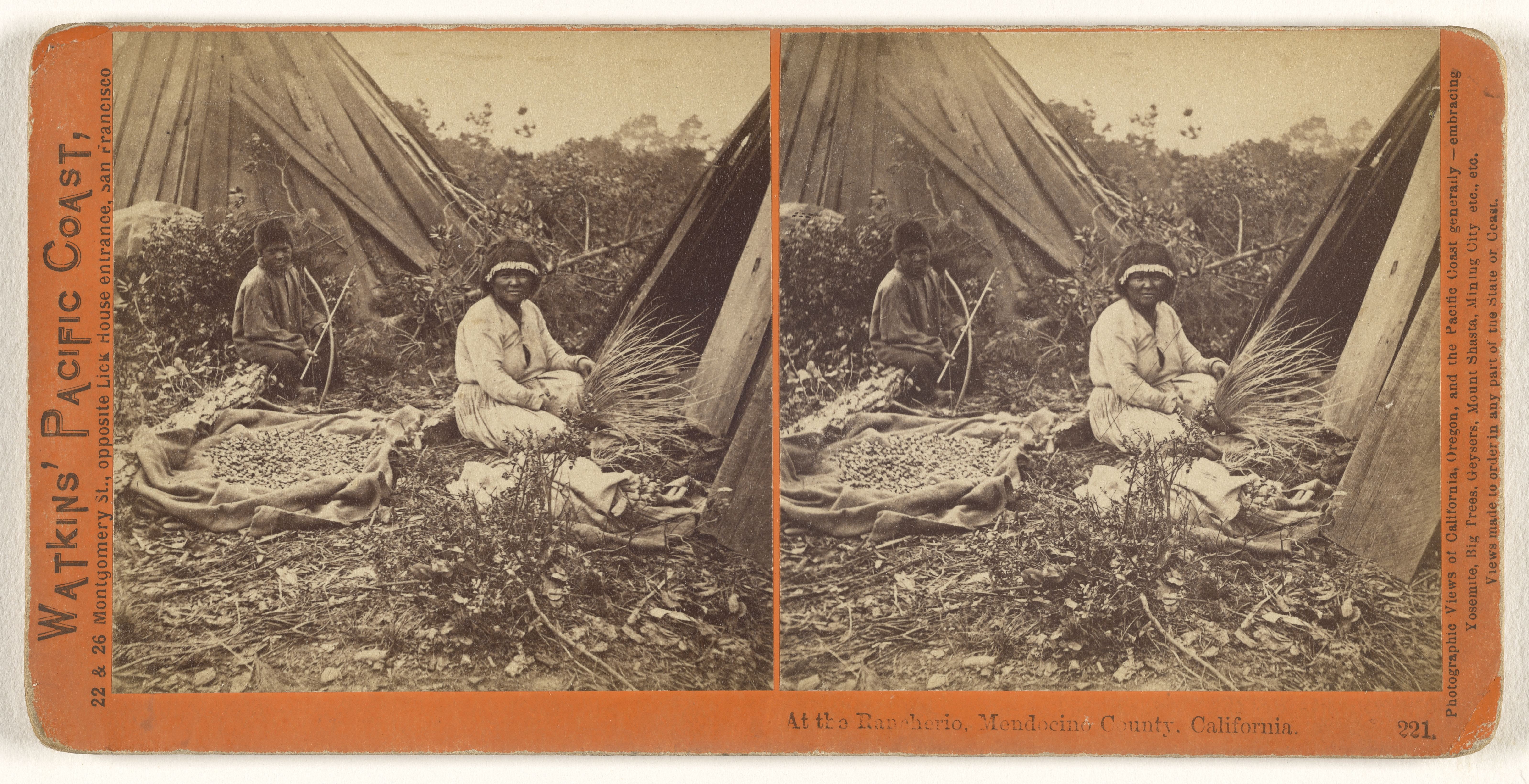 At the Ranchero, Mendocino County, California.; Carleton Watkins (American, 1829 - 1916); about 1867; Albumen silver print; 84.XC.902.56; No Copyright - United States (